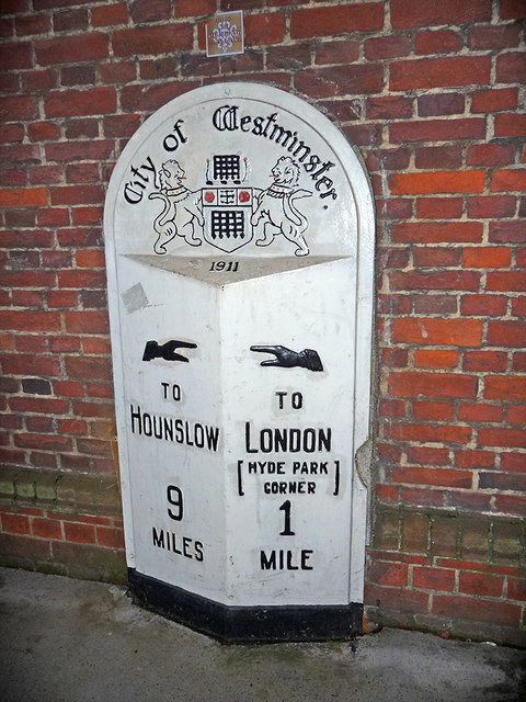 Milestone, Knightsbridge, London This City of Westminster Milestone dated 1911 is on the south side of Knightsbridge to the east of the Royal Albert Hall.